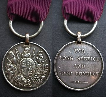 The Queen Victoria version of the Army Long Service and Good Conduct Medal with a large ring suspender